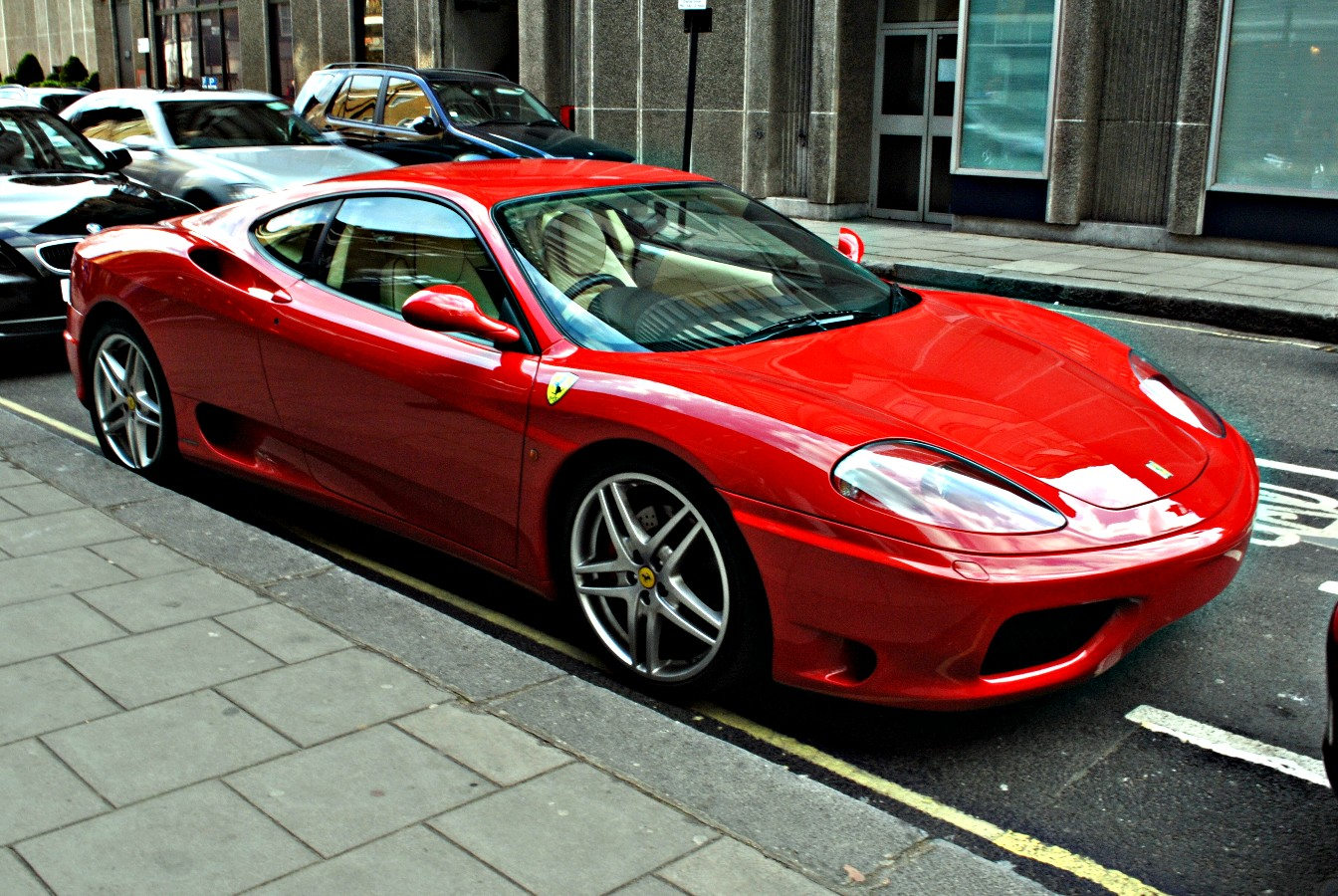 Ferrari 360 Modena pictured in London